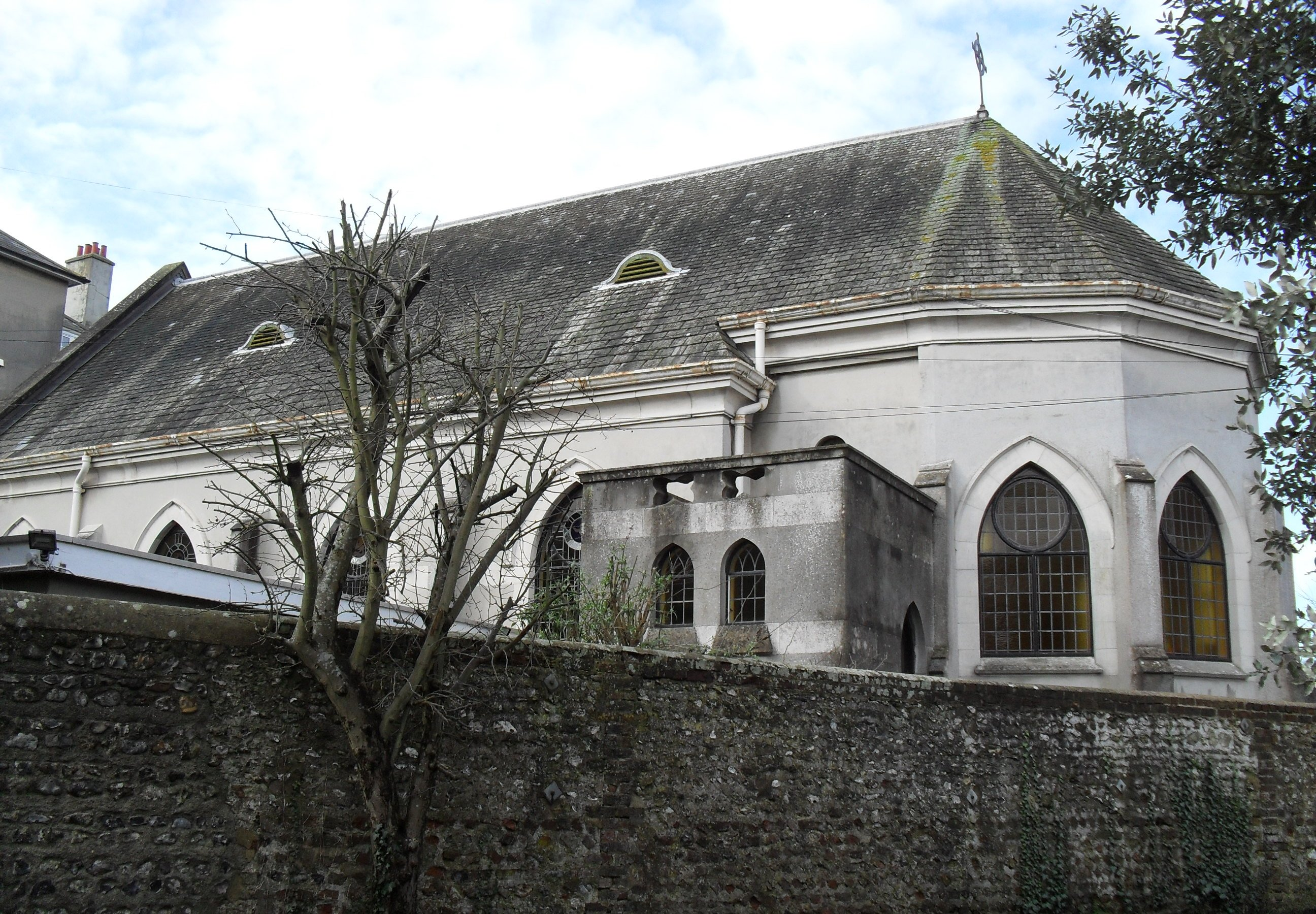 Chapel at The Towers Convent, Upper Beeding, District of Horsham, West Sussex, England. The convent was built in 1903; this chapel was added in 1929, and has always been open to the public for Mass and other services. It is part of the Adur Valley parish in the Roman Catholic Diocese of Arundel and Brighton.